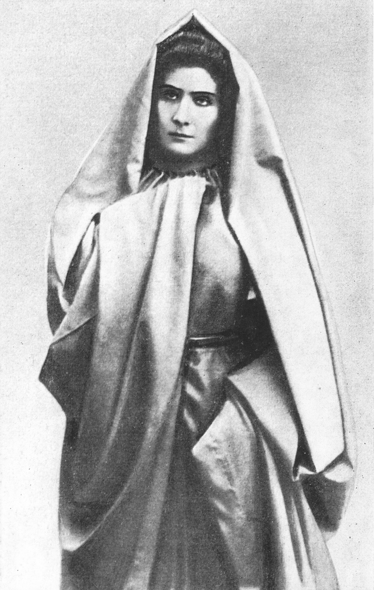 Nikolai Rimsky-Korsakov - Servilia - Valentina Cuza as Servilia, 1902